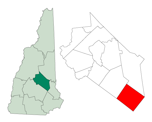 Map of a municipality in Belknap County, New Hampshire